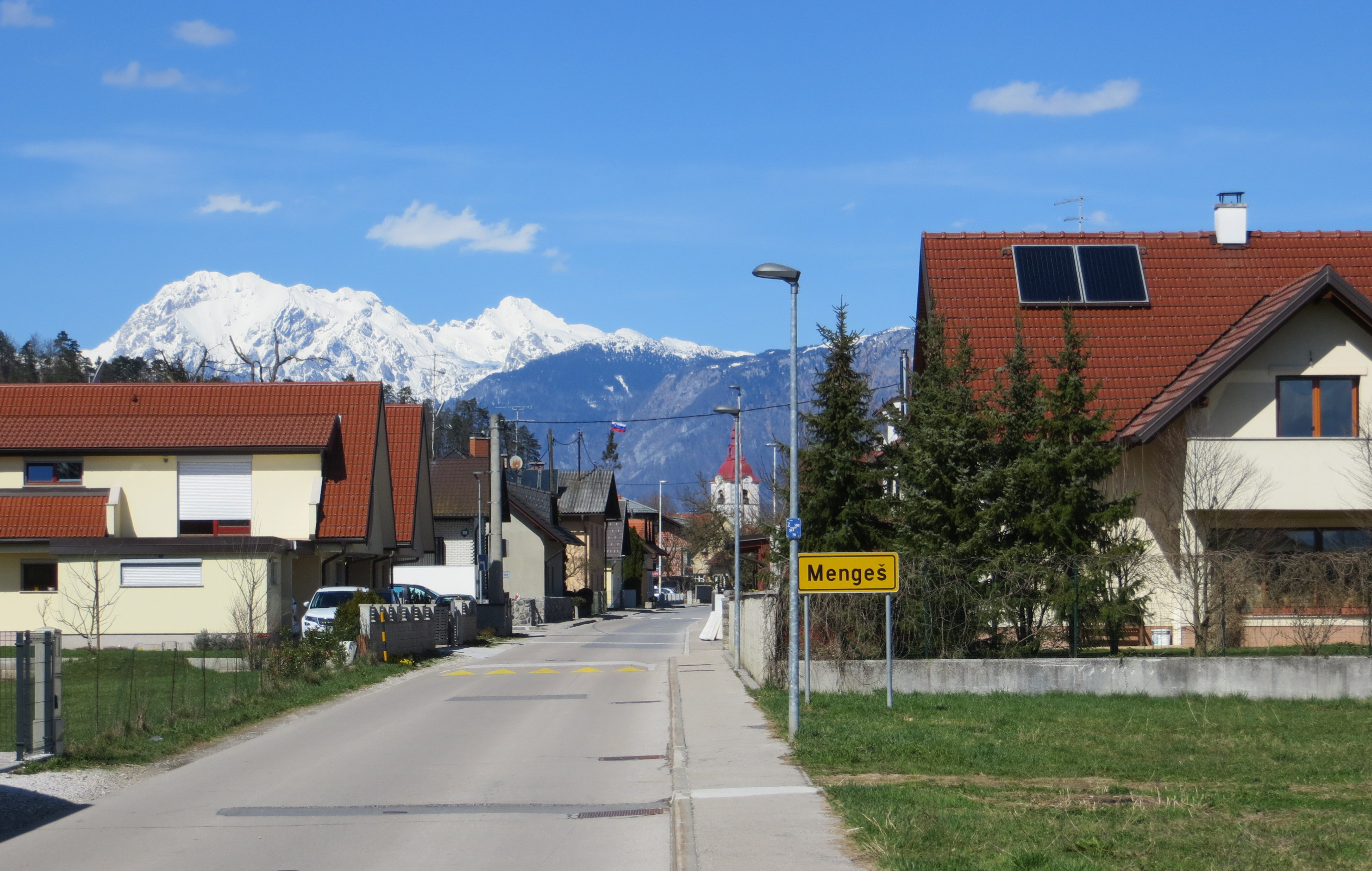 Mengeš, Municipality of Mengeš, Slovenia